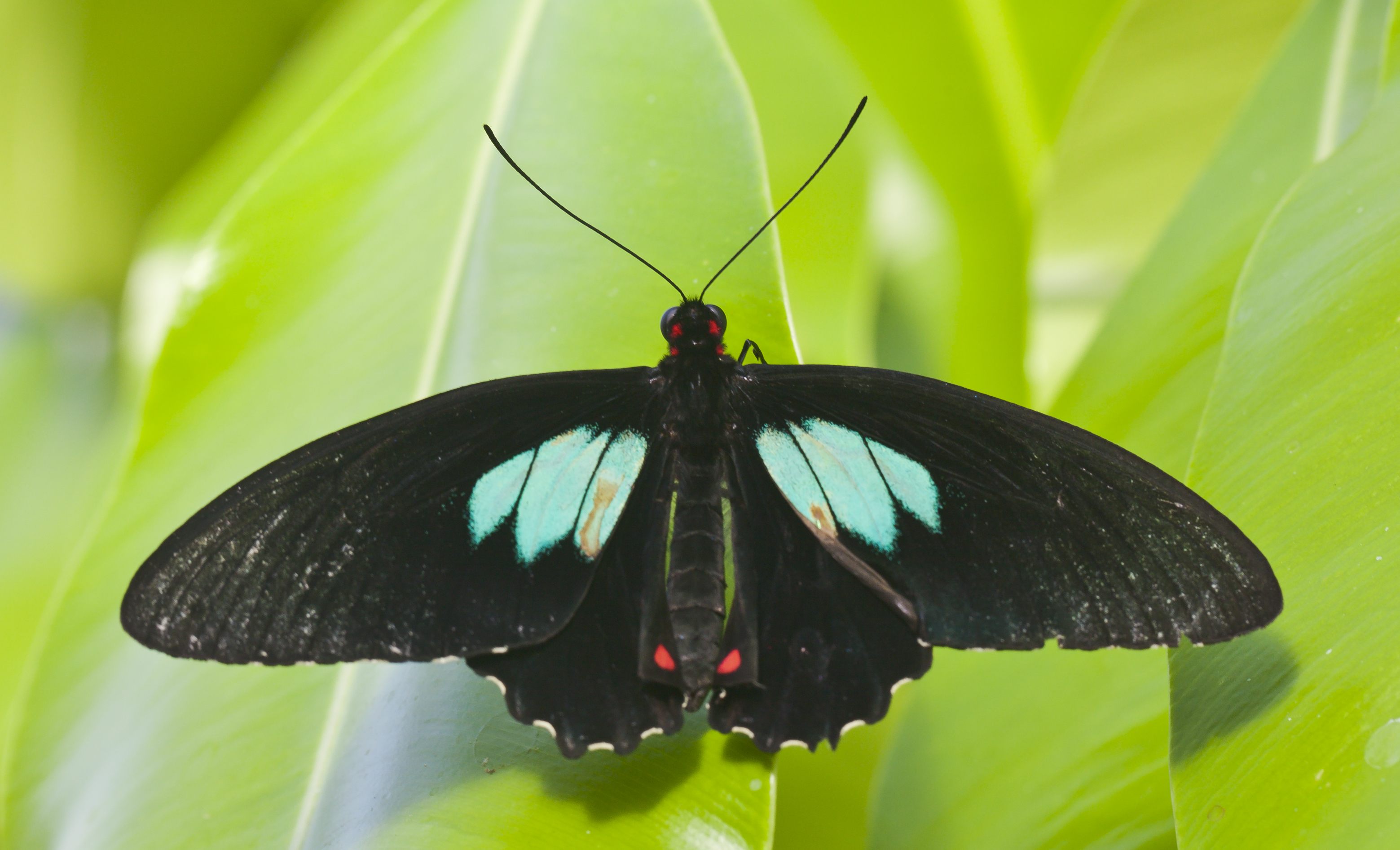 Parides neophilus, Munich Botanical Garden, Germany